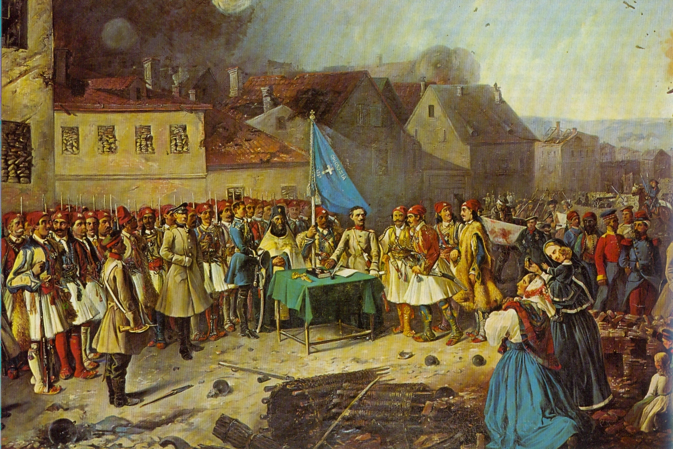 Greek volunteers under Panos Koronaios in Sevastopol during the Crimean War